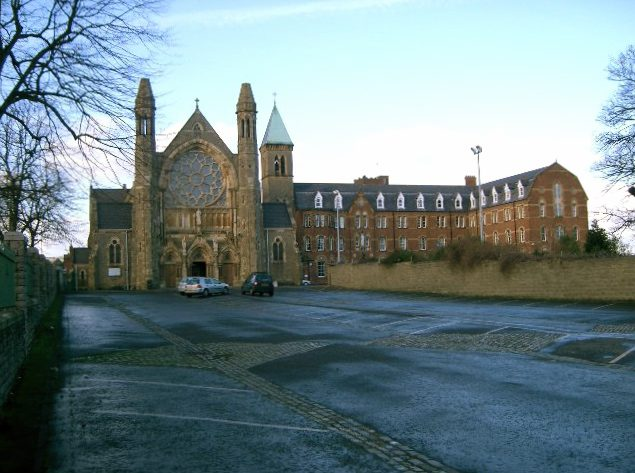 Clonard Monastery, Belfast, Northern Ireland. Monastery website